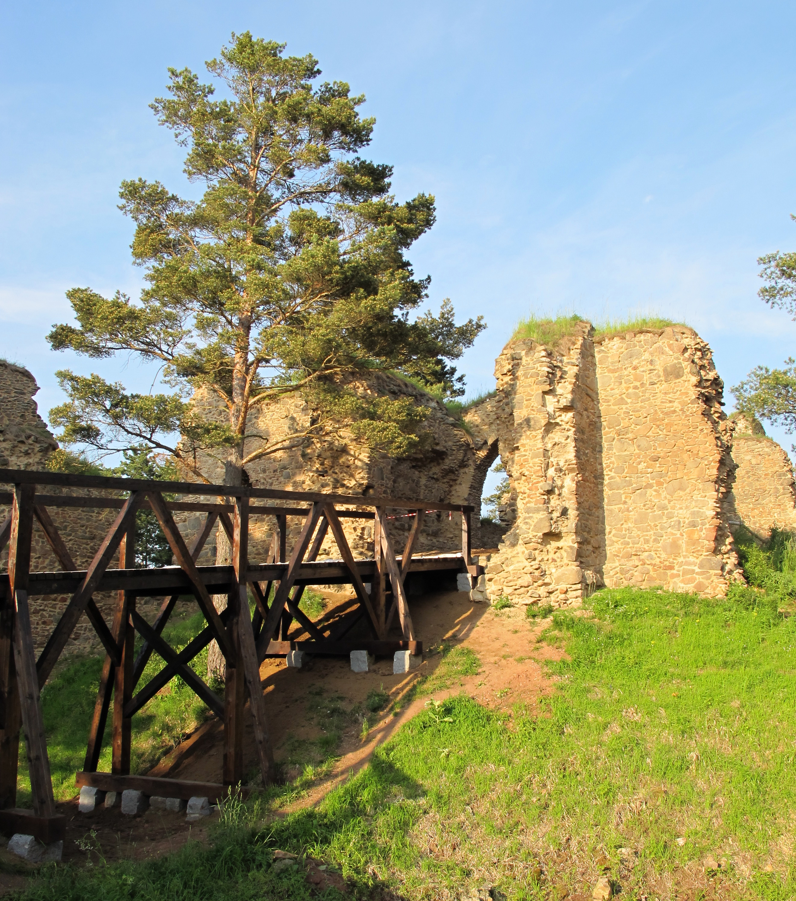 Ruins of Vrškamýk Castle near Kamýk nad Vltavou, Příbram District